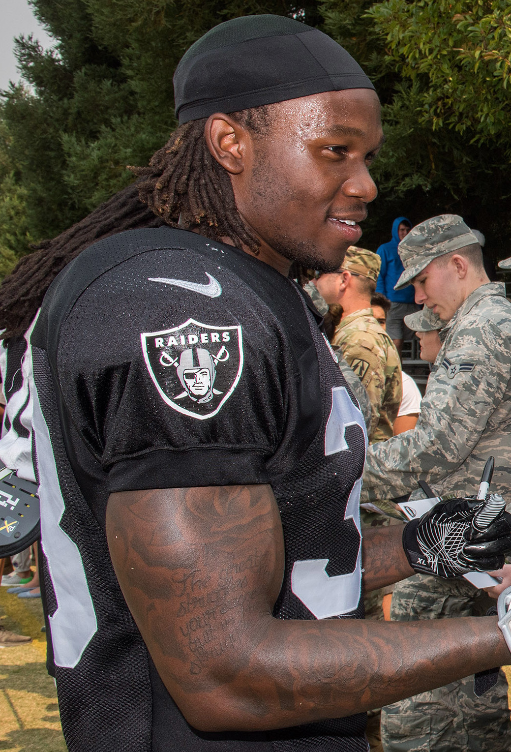 Oakland Raiders cornerback Nick Nelson signs autographs for Airmen from Travis Air Force Base, Calif., after his practice in Napa Valley, Calif., August 7, 2018. The Raiders invited Travis Airmen to attend camp and were treated to a scrimmage between the Raiders and Detroit Lions and a meet and greet autograph session with players and coaches from both teams.